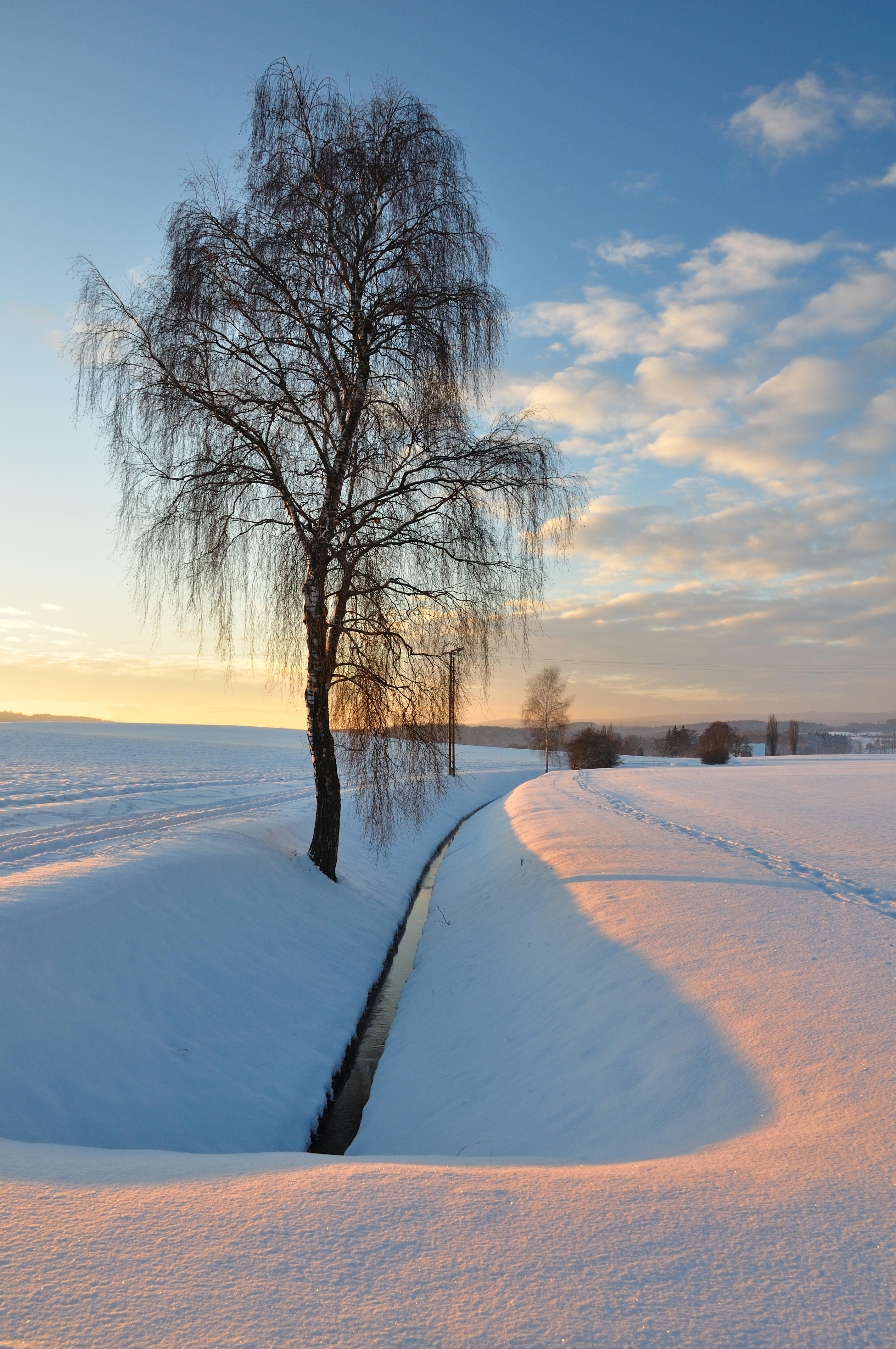 Switzerland, Canton of Schaffhausen, "golden hour" in Dörflingen on a cold winter day.